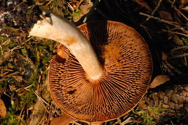 Cortinarius bulbosus from Commanster, Belgian High Ardennes .